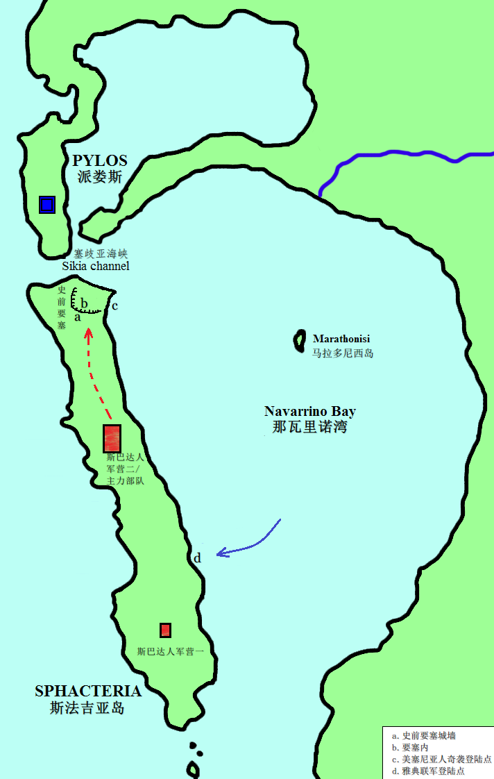 A map of Battle of Sphacteria, Chinese version.